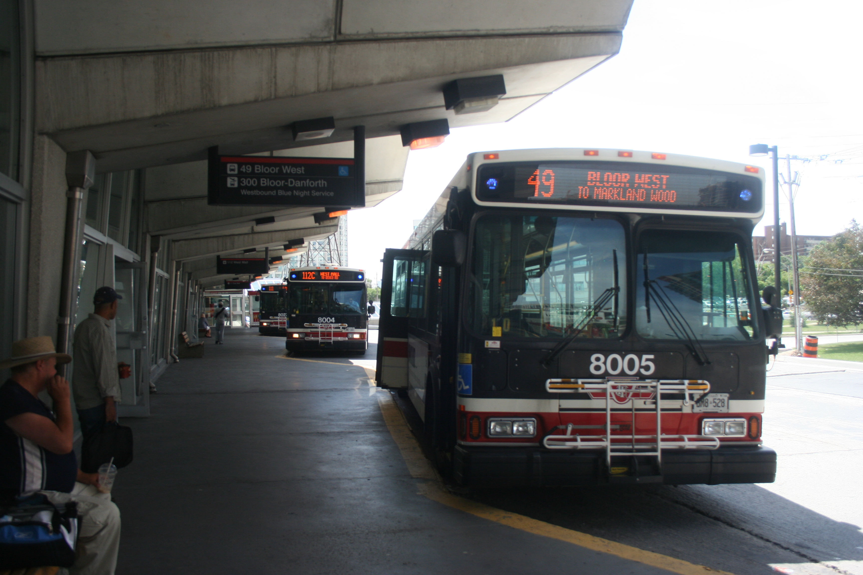 Bus platform area with multiple bays for several connecting routes at Kipling TTC subway station in Toronto